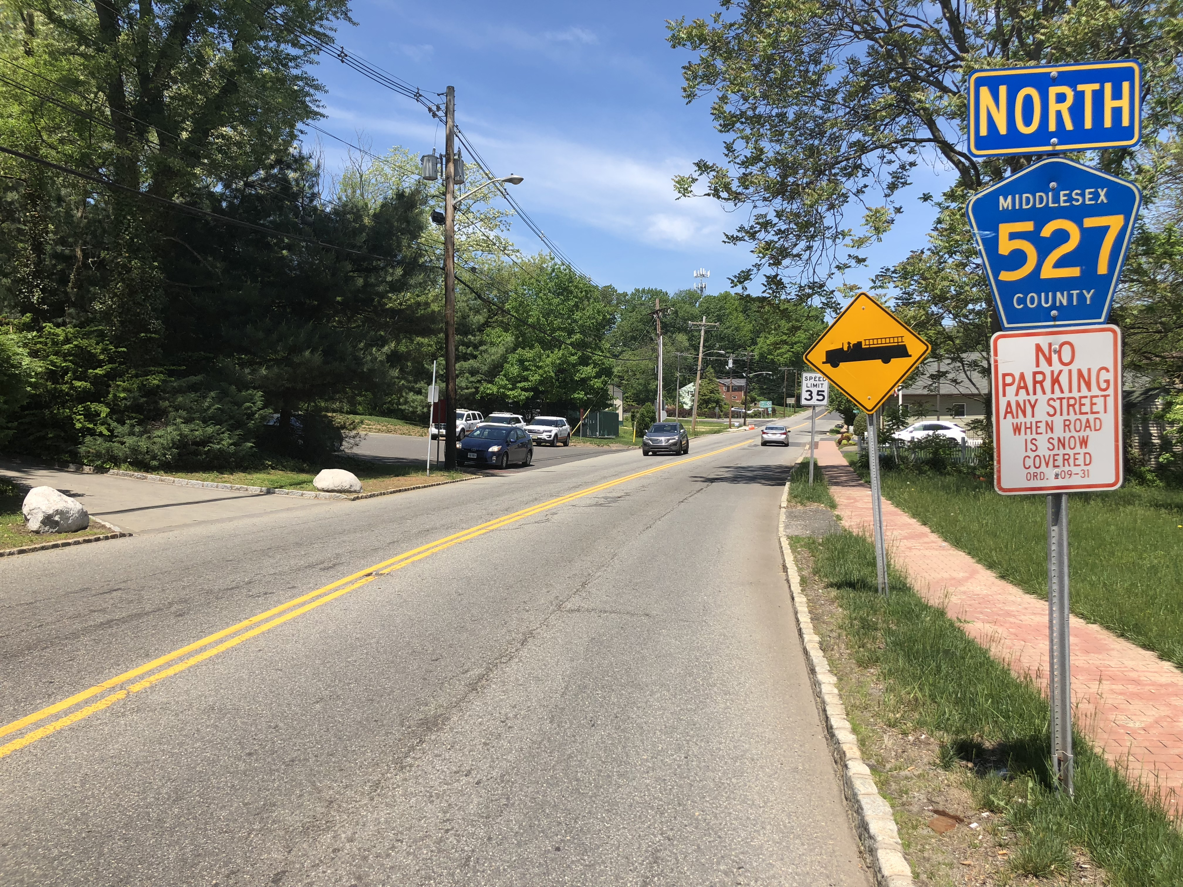 View north along Middlesex County Route 527 (Old Bridge Turnpike) at Kossman Street in East Brunswick Township, Middlesex County, New Jersey